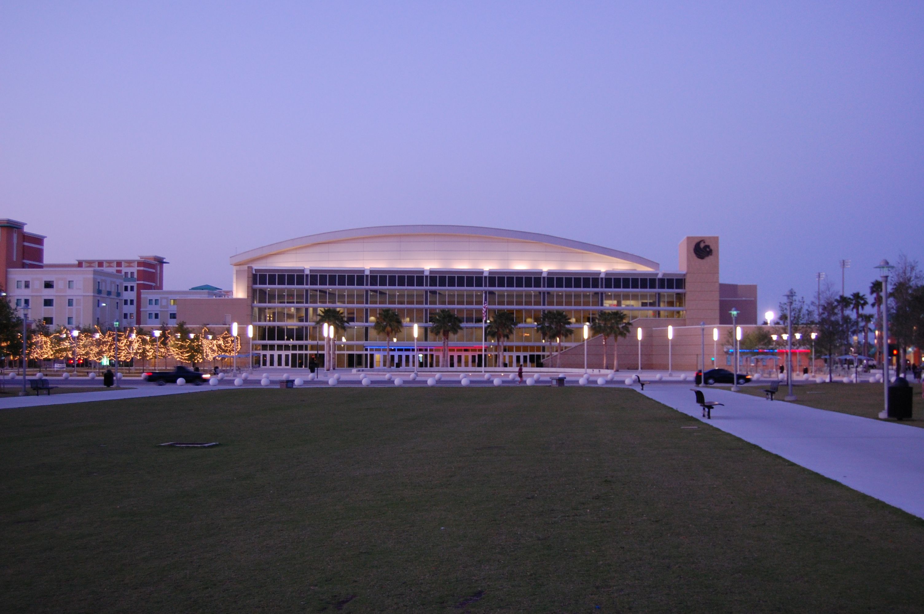 UCF Arena